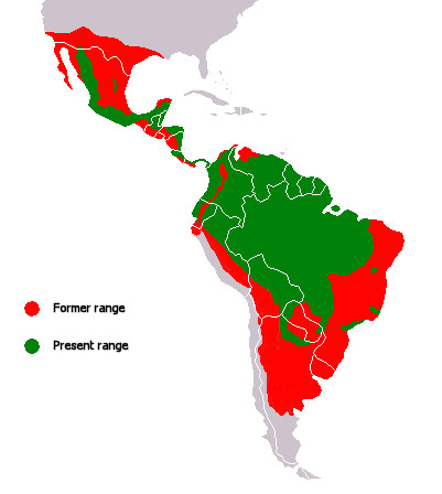 Tweaked Jaguar distribution